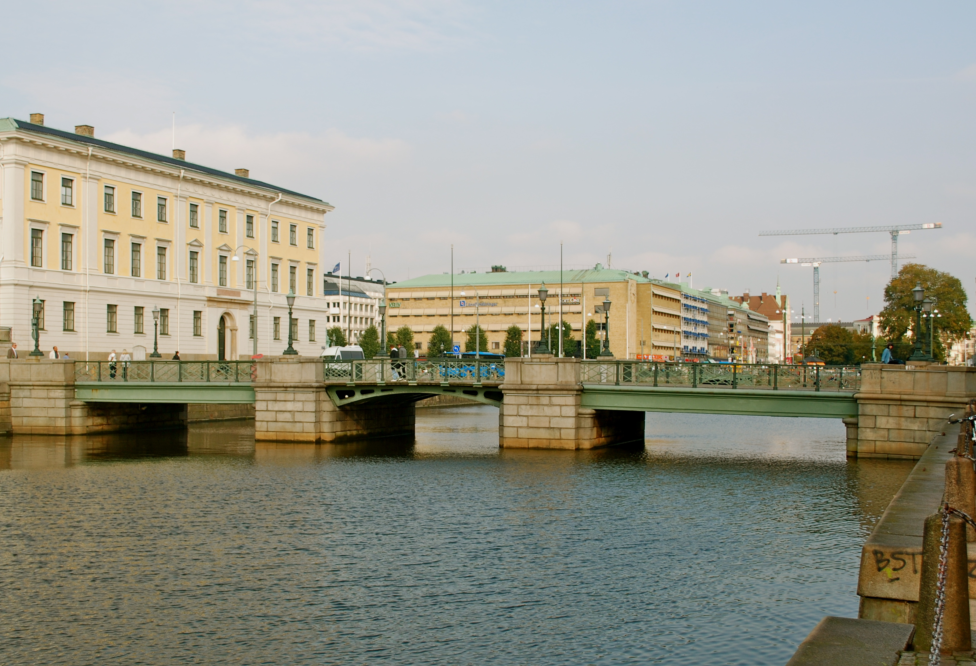 Tyska bron (The German bridge).